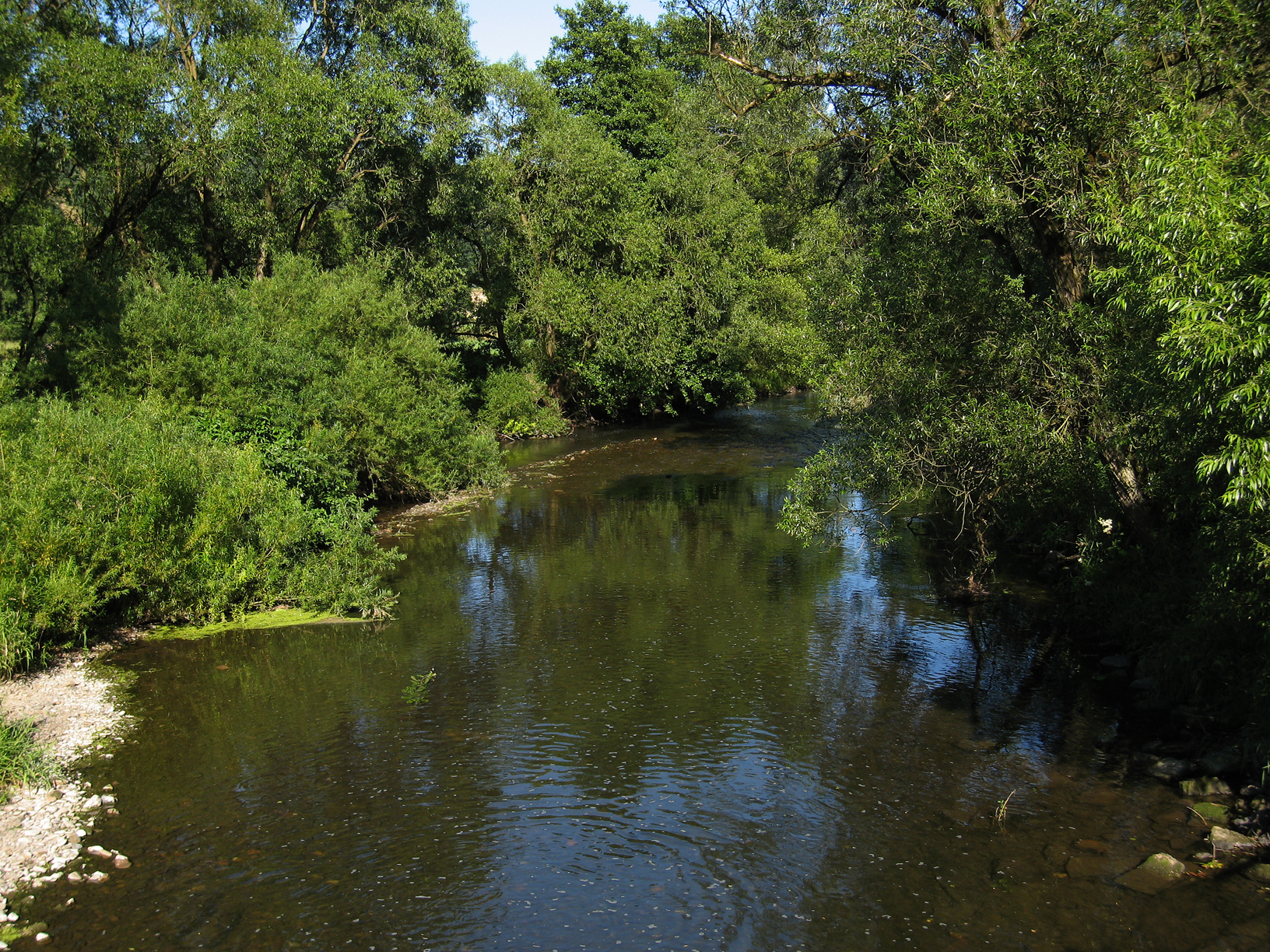 The confluence of the Wetschaft into the Lahn